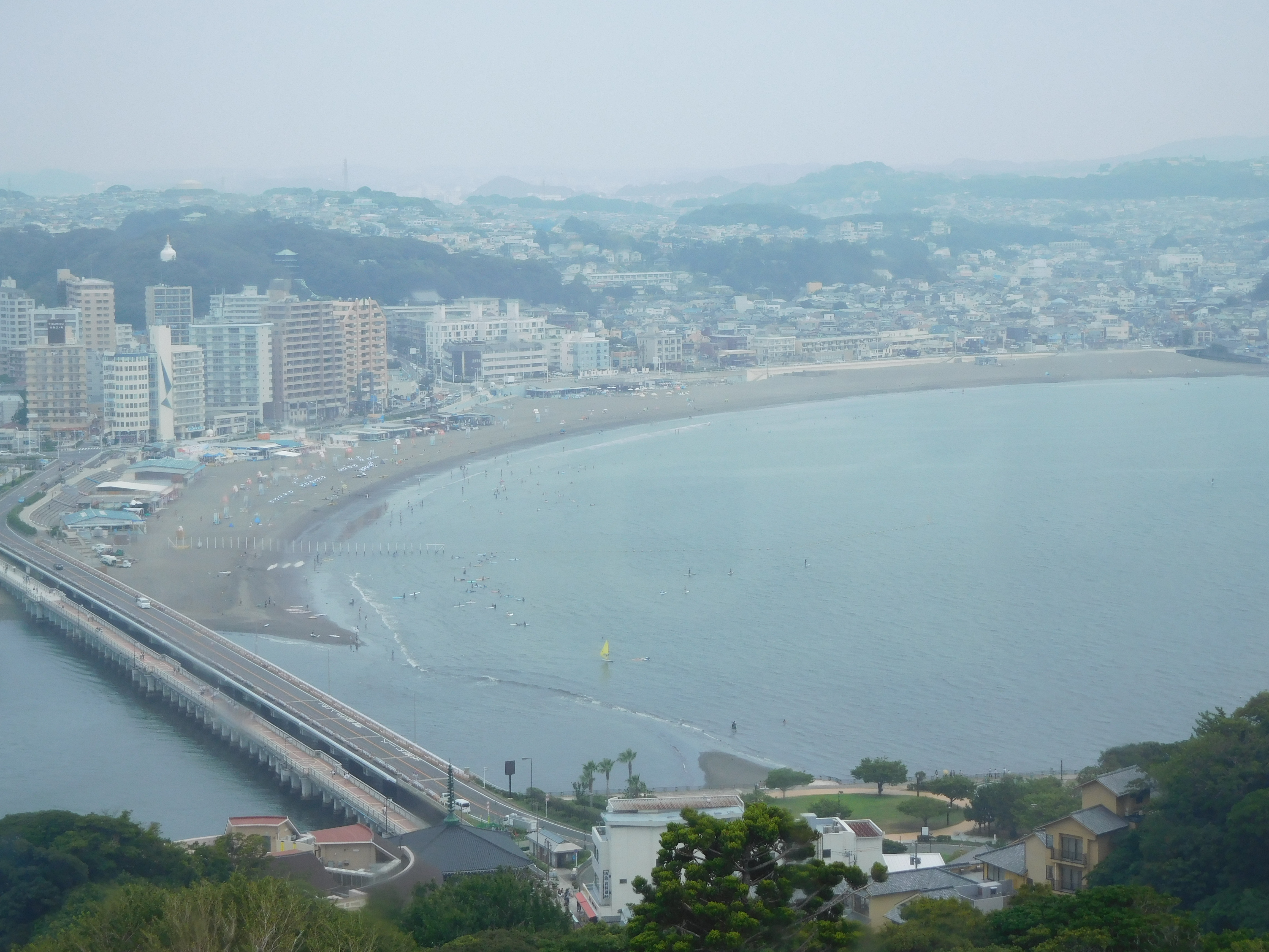 This is Katase East Beach in Fujisawa, Kanagawa, Japan. I took this picture from Enoshima Sea Candle.